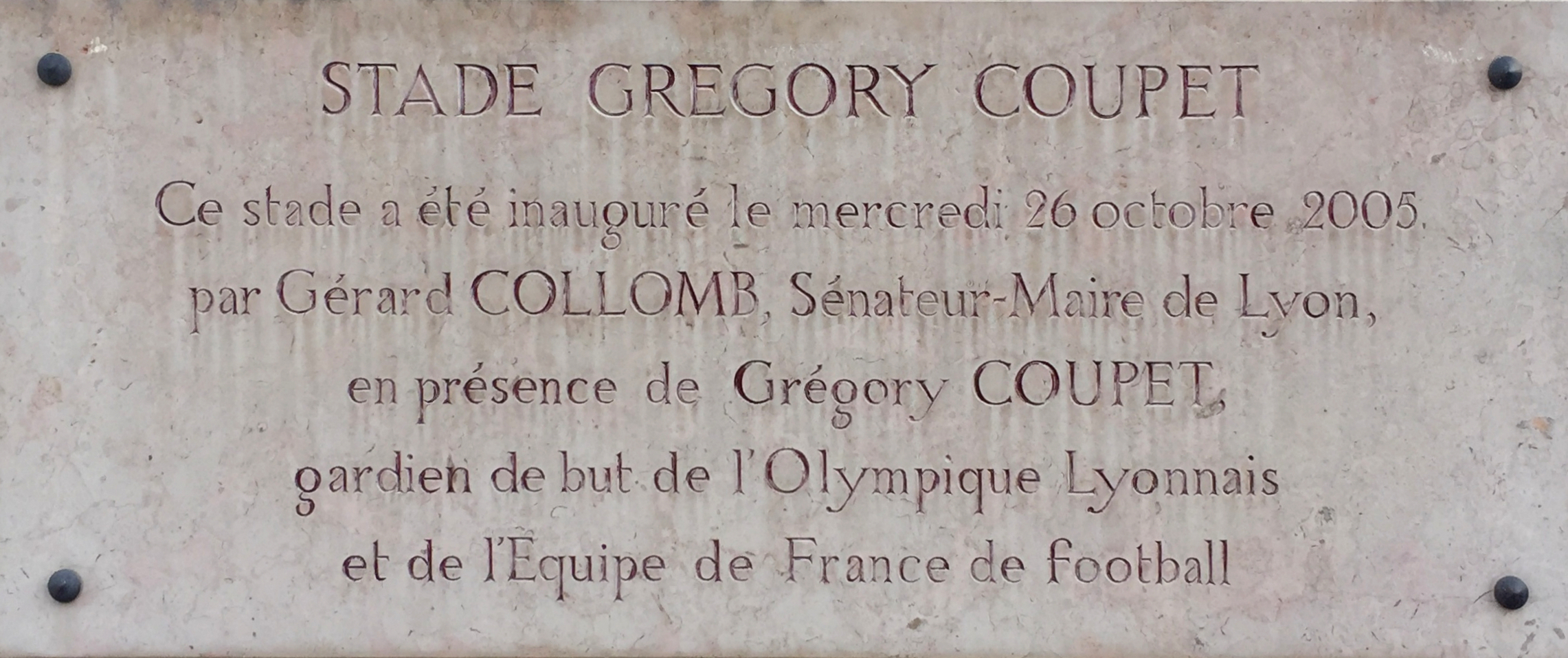 Inauguration Plaque of Grégory Coupet stadium, Lyon, France. STADE GREGORY COUPET par Gérard COLLOMB, Sénateur-Maire de Lyon en présence de Grégory COUPET gardien de but de l'Olympique Lyonnais et de l'Equipe de France